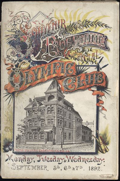 Cover of Souvenir Program of 3 day exhibition of boxing at the Olympic Club, New Orleans, 1892; most notably included the Sullivan v/s Corbitt World Heavyweight Championship. Features engraved illustration of the exterior of the Olympic Club building.